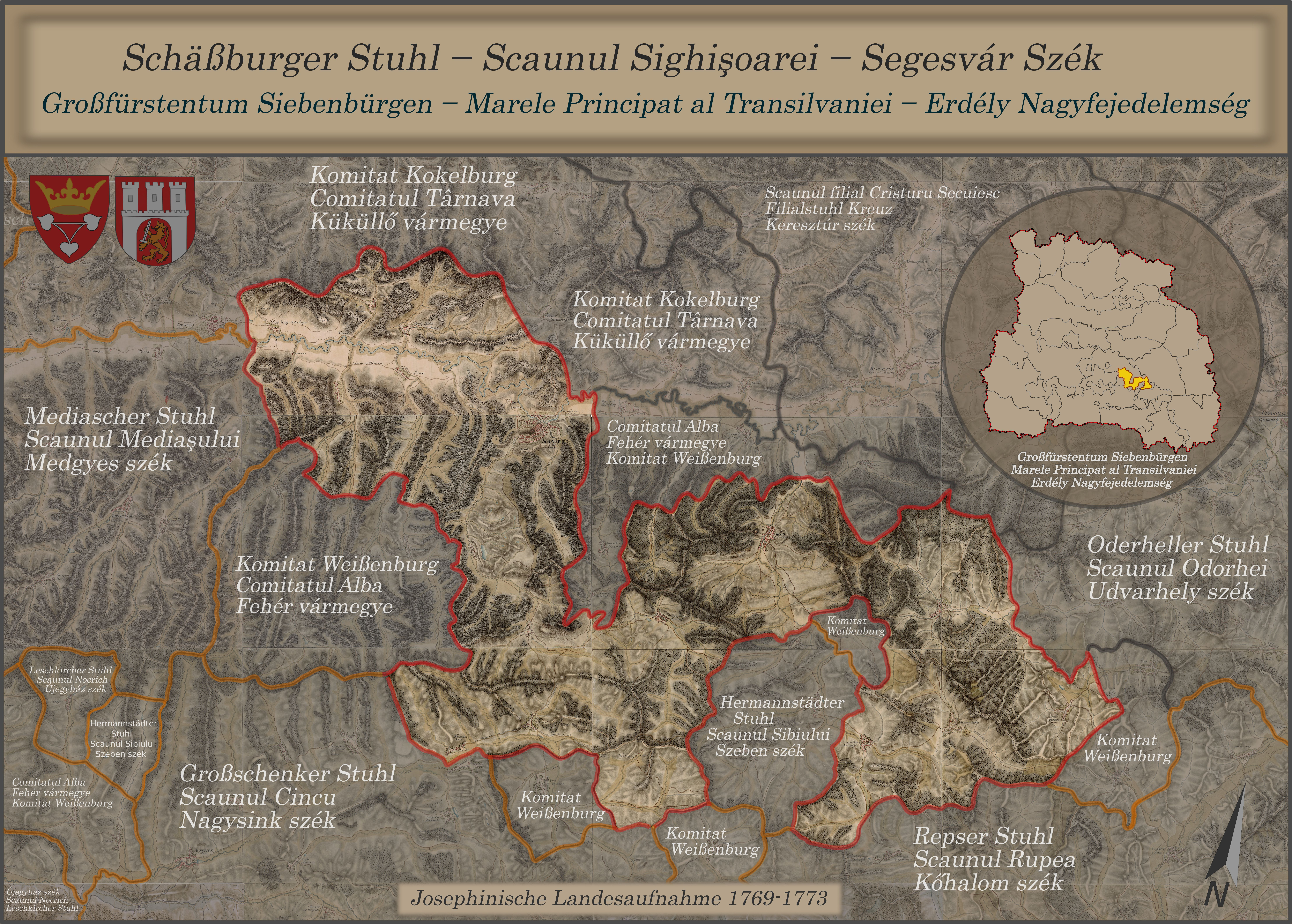 Schäßburger Stuhl ; composed from maps of the Josephinische Landesaufnahme, 1769-1773